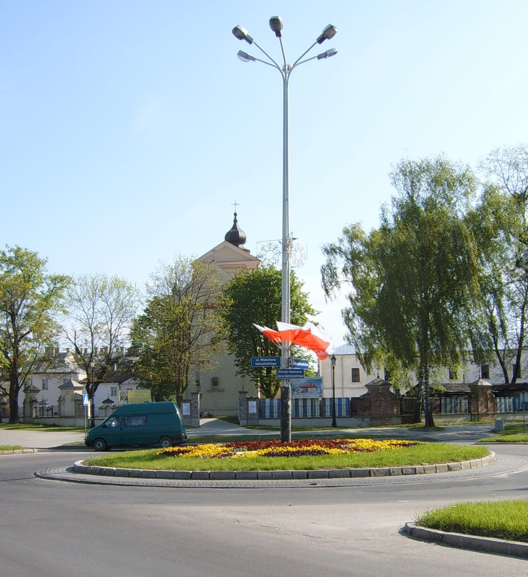 Jan Zamoyski roundabout in Zamość, Poland